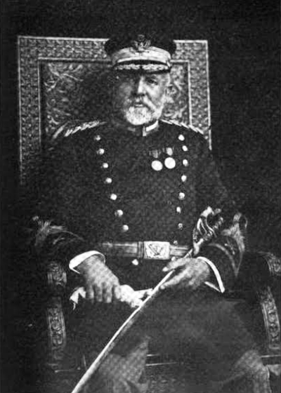 Colonel Richard M. Blatchford (later General), United States Army, circa 1915